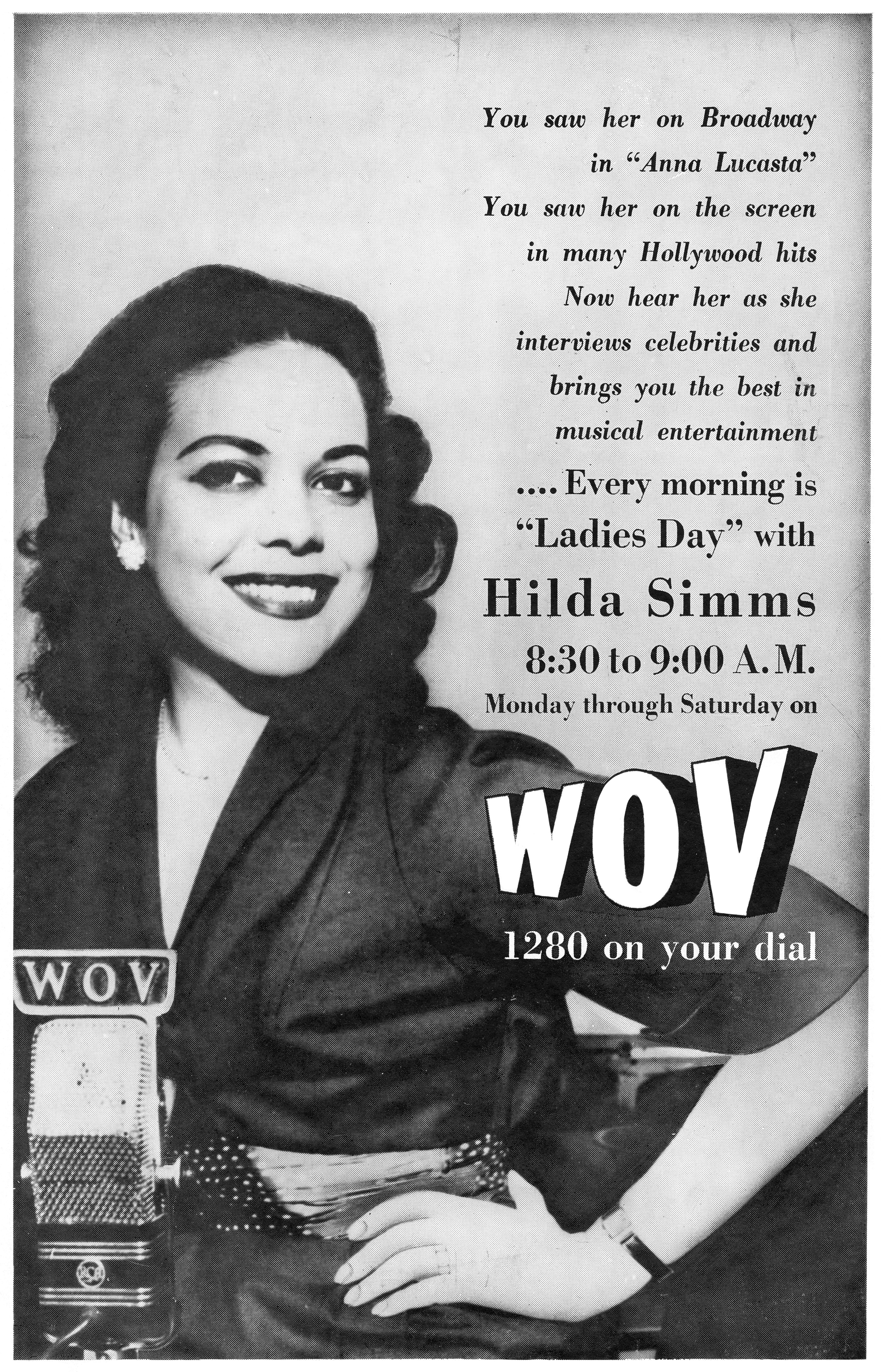 Newspaper advertisement for morning radio program Ladies Day hosted by Hilda Simms, on WOV in New York City